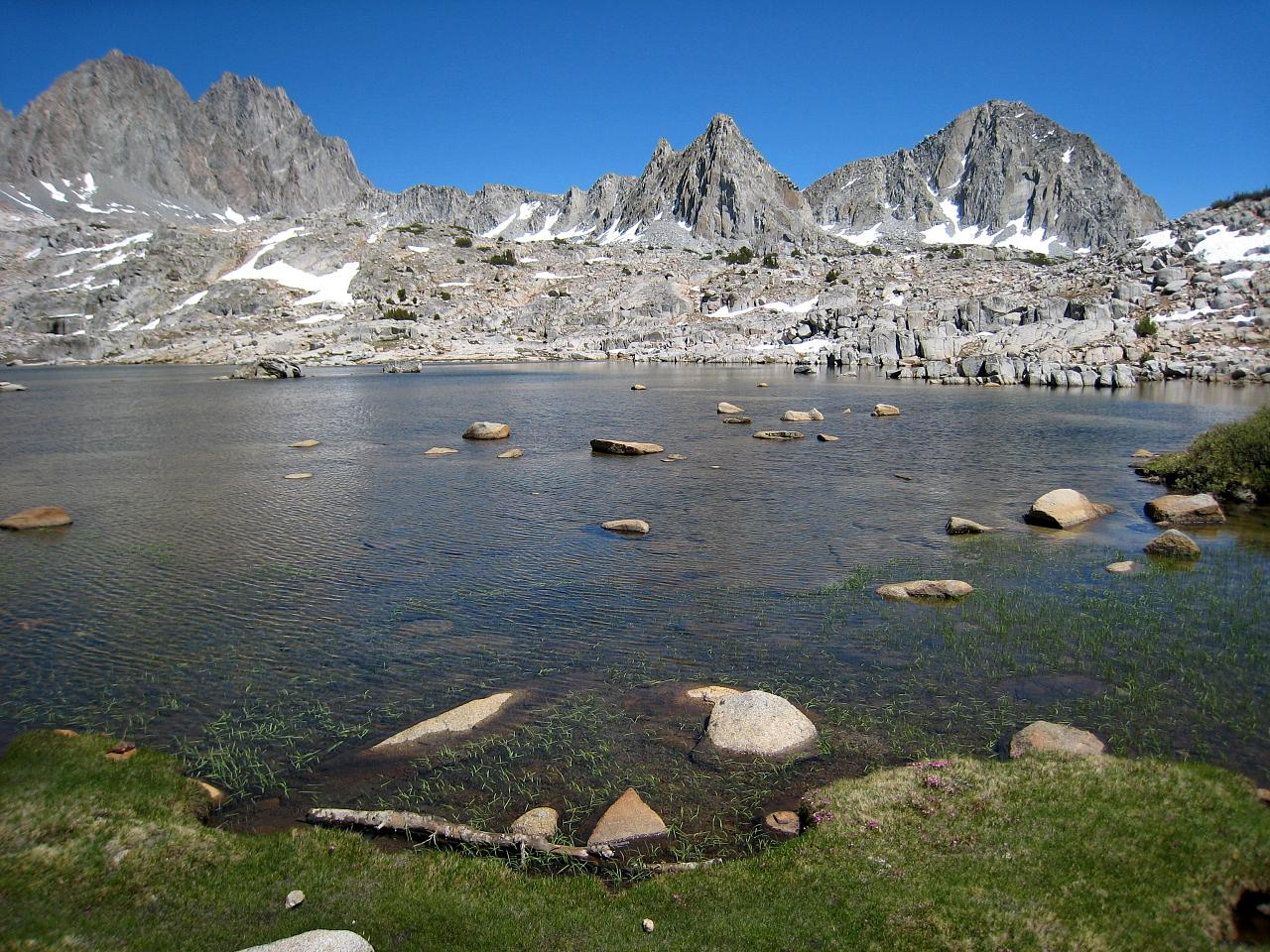 A body of water in the Bishop Pass area of Dusy Basin within Kings Canyon National Park.